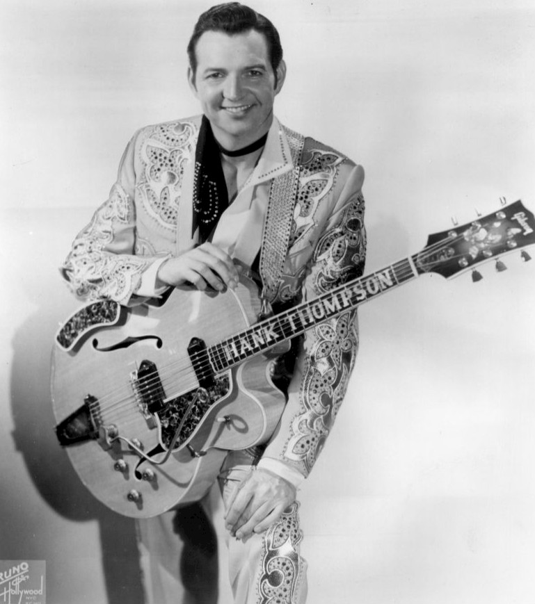 Publicity photo of singer, songwriter, and musician Hank Thompson.